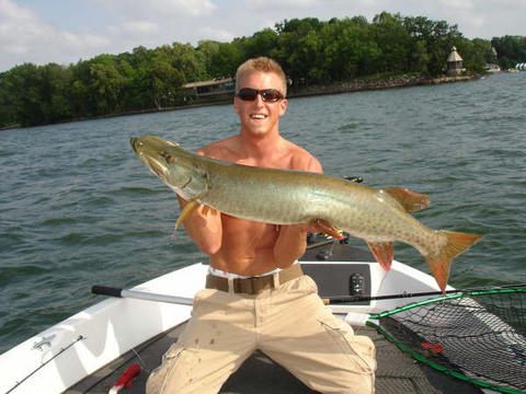 Andy Hamm in Minnesotta with a 44 ″ (111.7 cm) Muskie (Esox masquinongy)